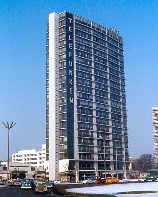 The Telefunken Building is on Ernst-Reuter-Platz in Berlin. It has 22 stories and is 80 m (262 ft) high. It was built in 1958-1960. At the time, it was Berlin's tallest office building. It was the headquarters of the Telefunken company, a subsidiary of AEG. It was sold to the city of Berlin in 1975, and now houses the Deutsche Telekom laboratories of Techniche Universität (technical university) Berlin.